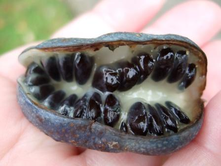 Decaisnea fargesii